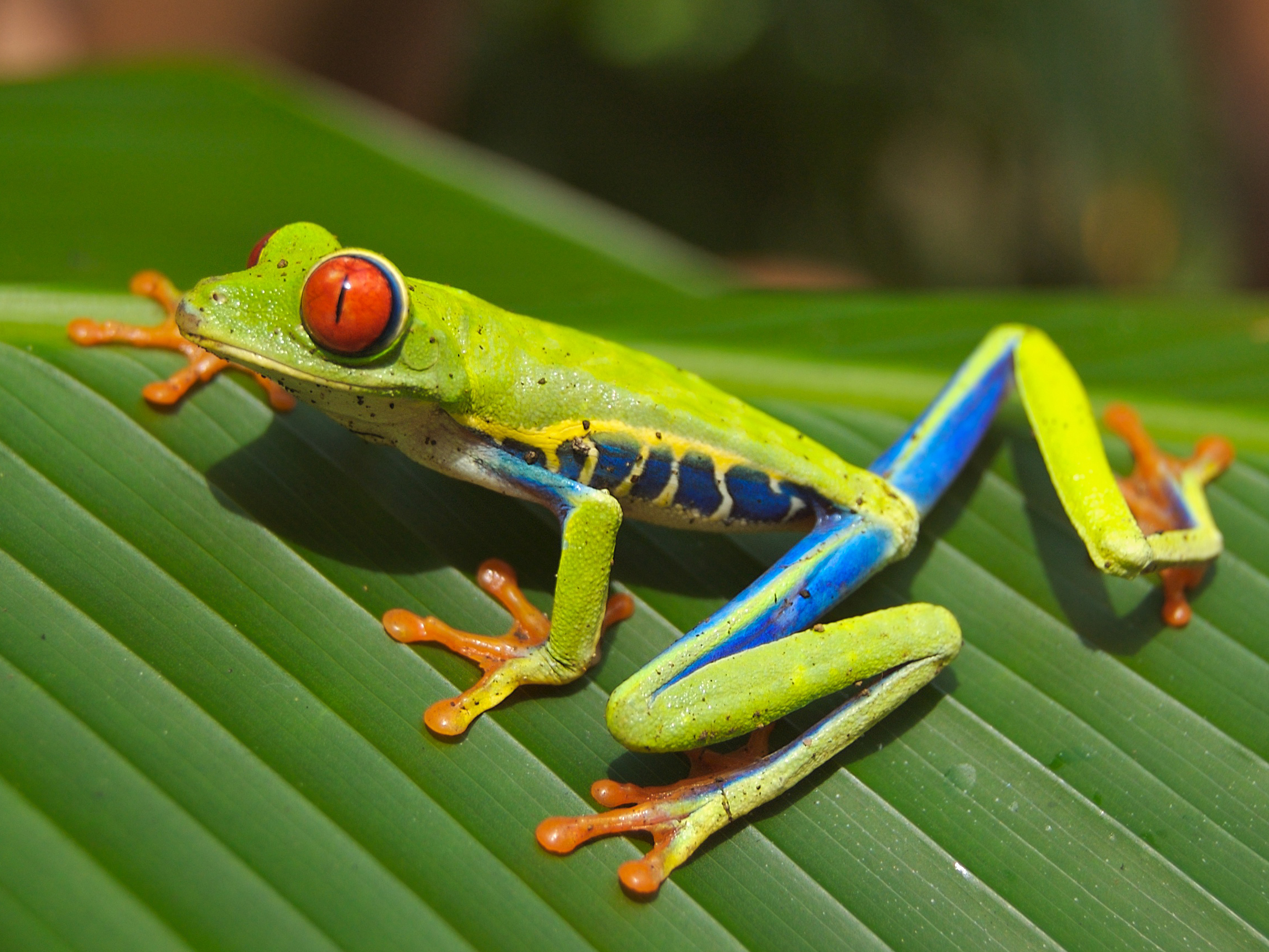 Red-eyed Tree Frog (Agalychnis callidryas), photographed near Playa Jaco in Costa Rica (retouched version).